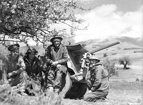 Members of the Australian 2/1st Anti-Tank Regiment resting, 13 April 1941, after their withdrawal from the Vevi area. The unit suffered heavy losses in the first German attacks on Australian positions in Greece.